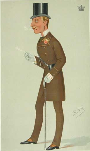 Caricature of HRH the Duke of Connaught KG. Caption read "a future Commander-in-Chief".